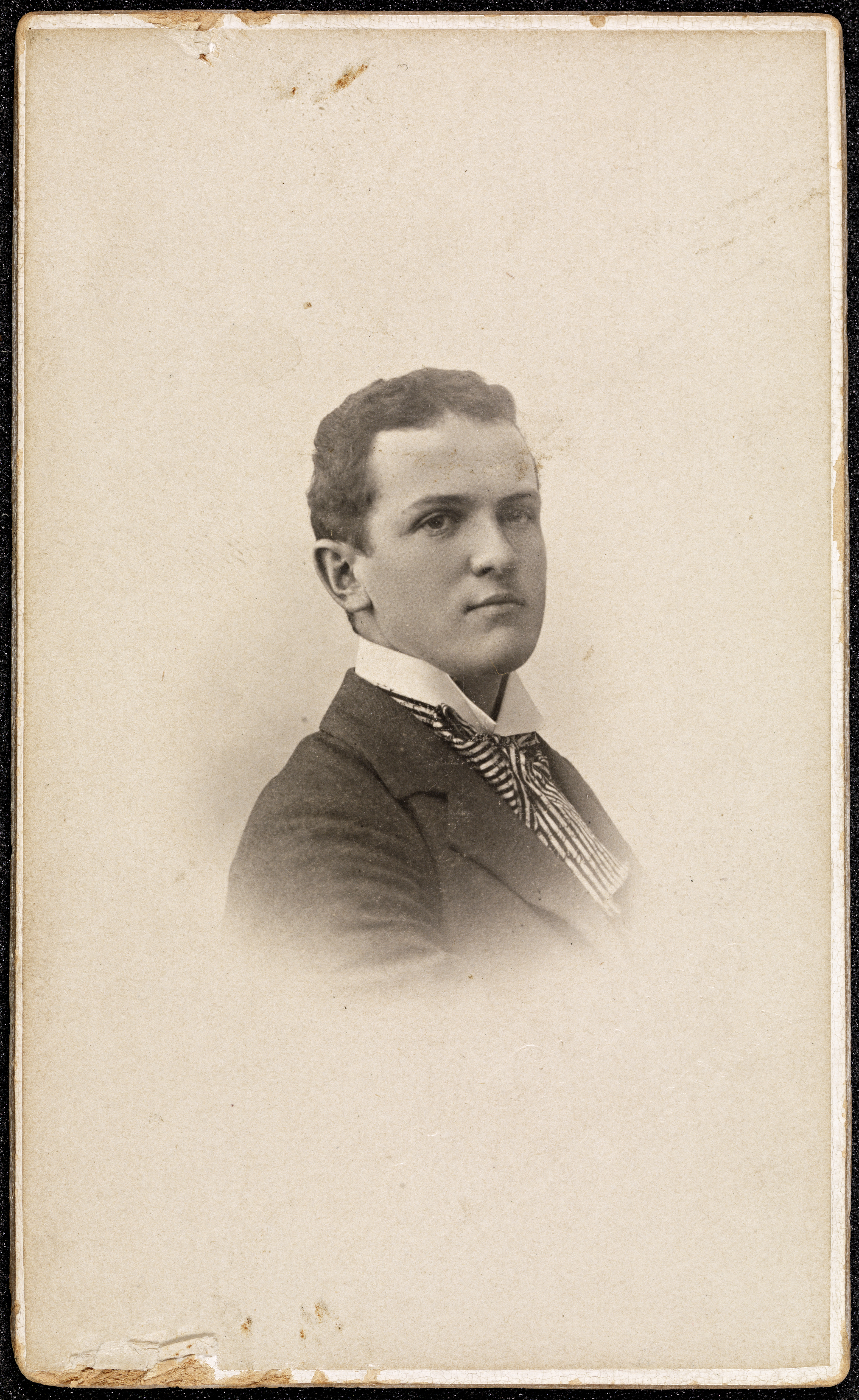 Beskrivelse / Description: Visittkort. Halfdan Cleve var komponist og pianist. Dato / Date: ca 1898 Fotograf / Photographer: C. C. Wischmann (Christiania) Digital kopi av original / Digital copy of original: s/h papirpostitiv Eier / Owner Institution: Nasjonalbiblioteket / National Library of Norway Lenke / Link: Bildesignatur / Image Number: blds_02281